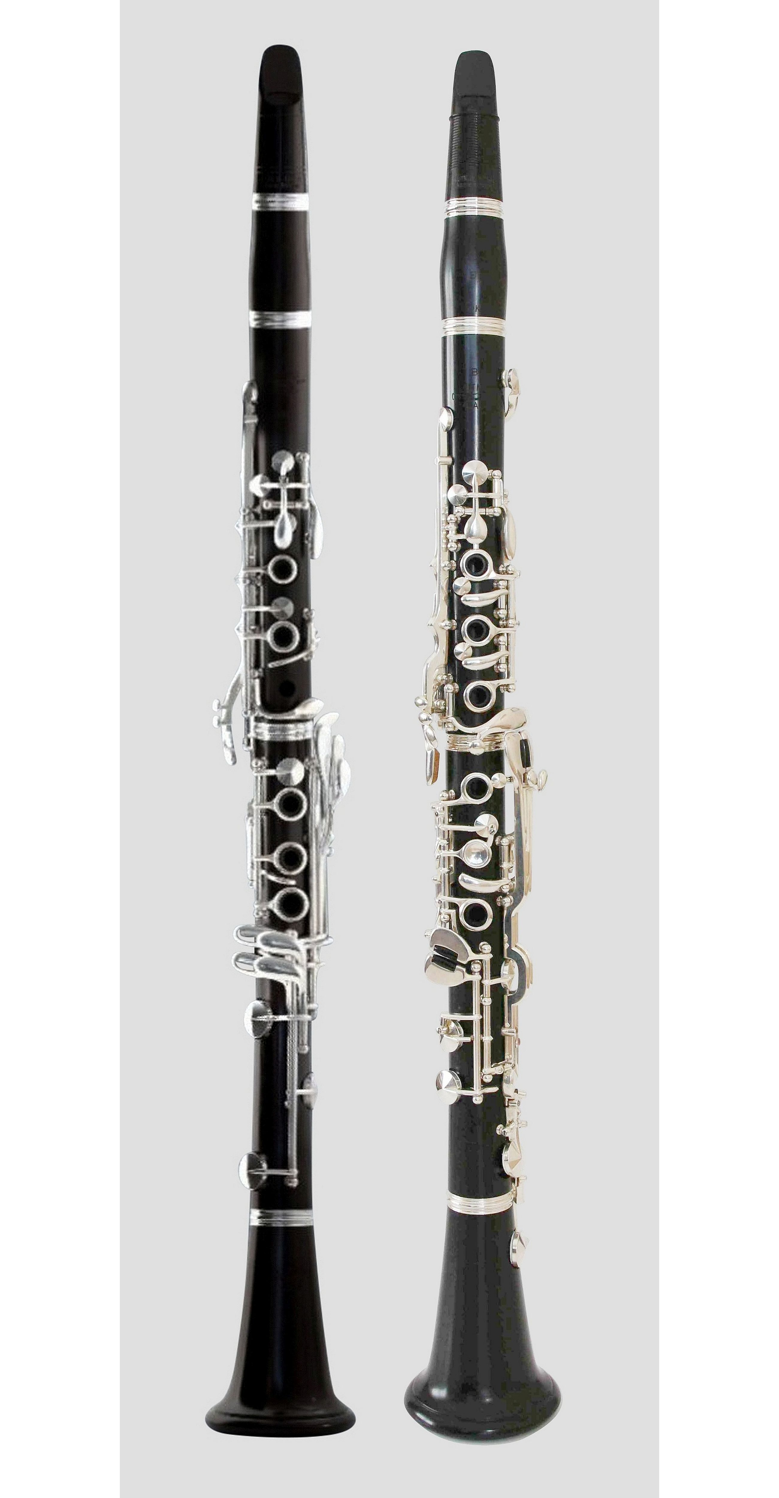 Summary of the two released images Leitner + Kraus 410.jpg and Leitner + Kraus 320.jpg